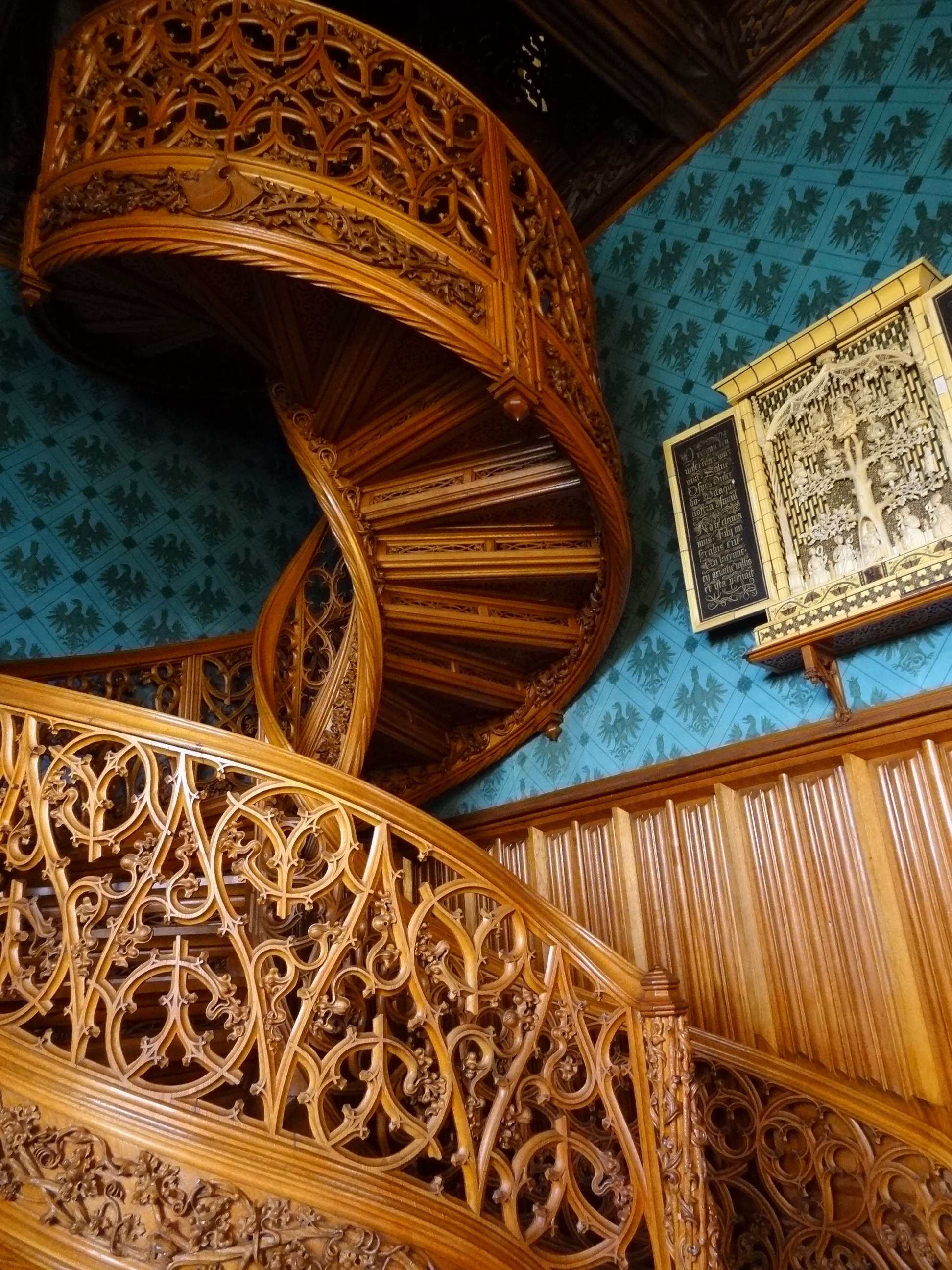 Lednice Castle interior